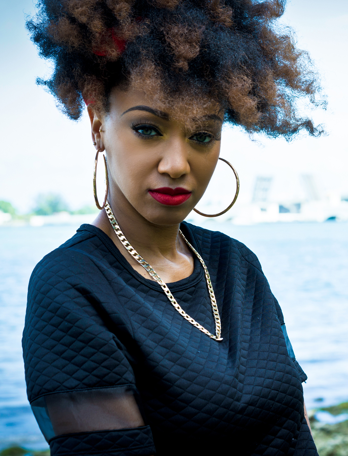 Press photo from Kirby Maurier's digital booklet for her Doing The Most album, commercially released by Valholla Entertainment on July 31, 2015